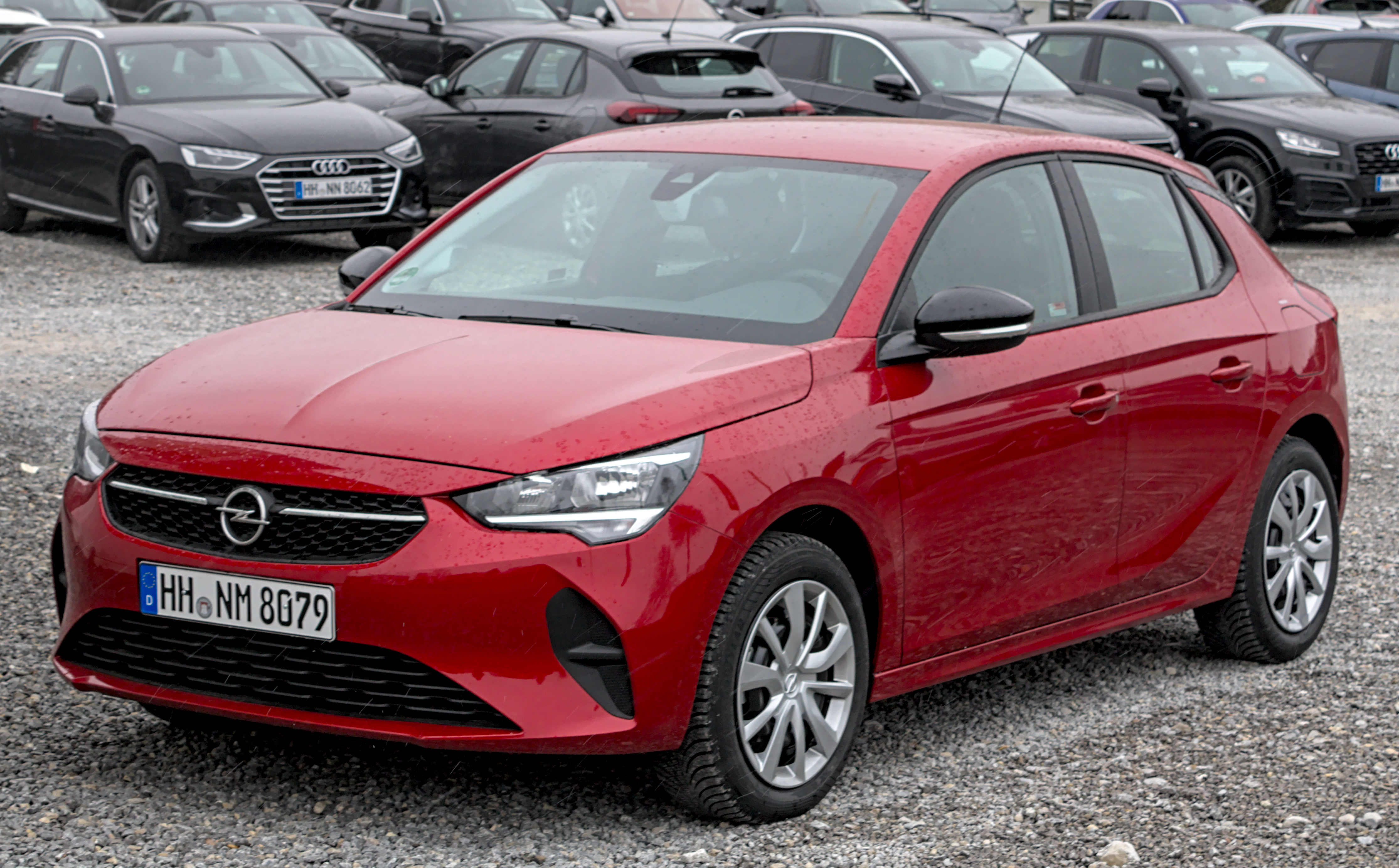 Opel_Corsa_F in Stuttgart-Vaihingen